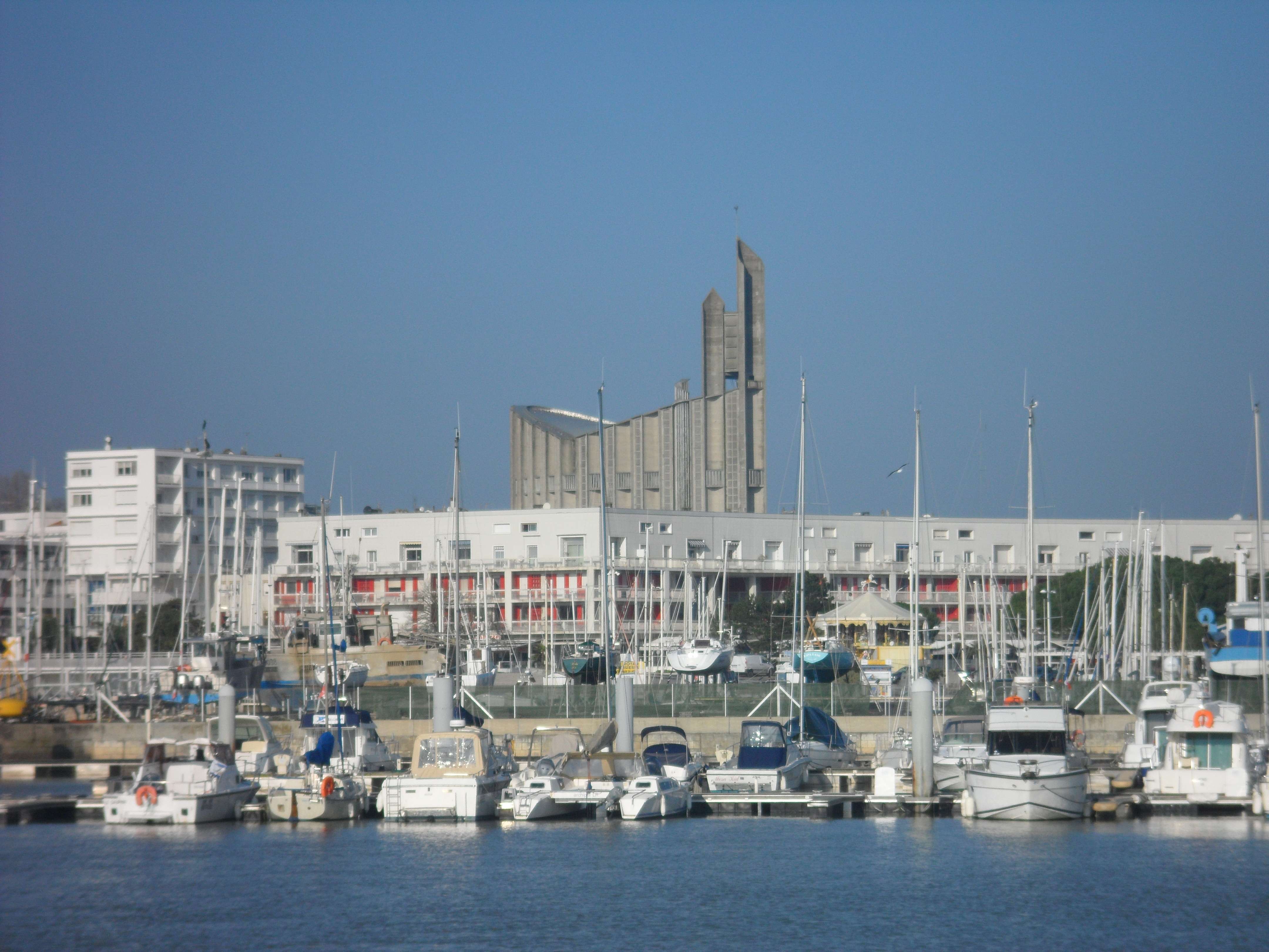 Le port de plaisance et l'église Notre Dame de Royan.